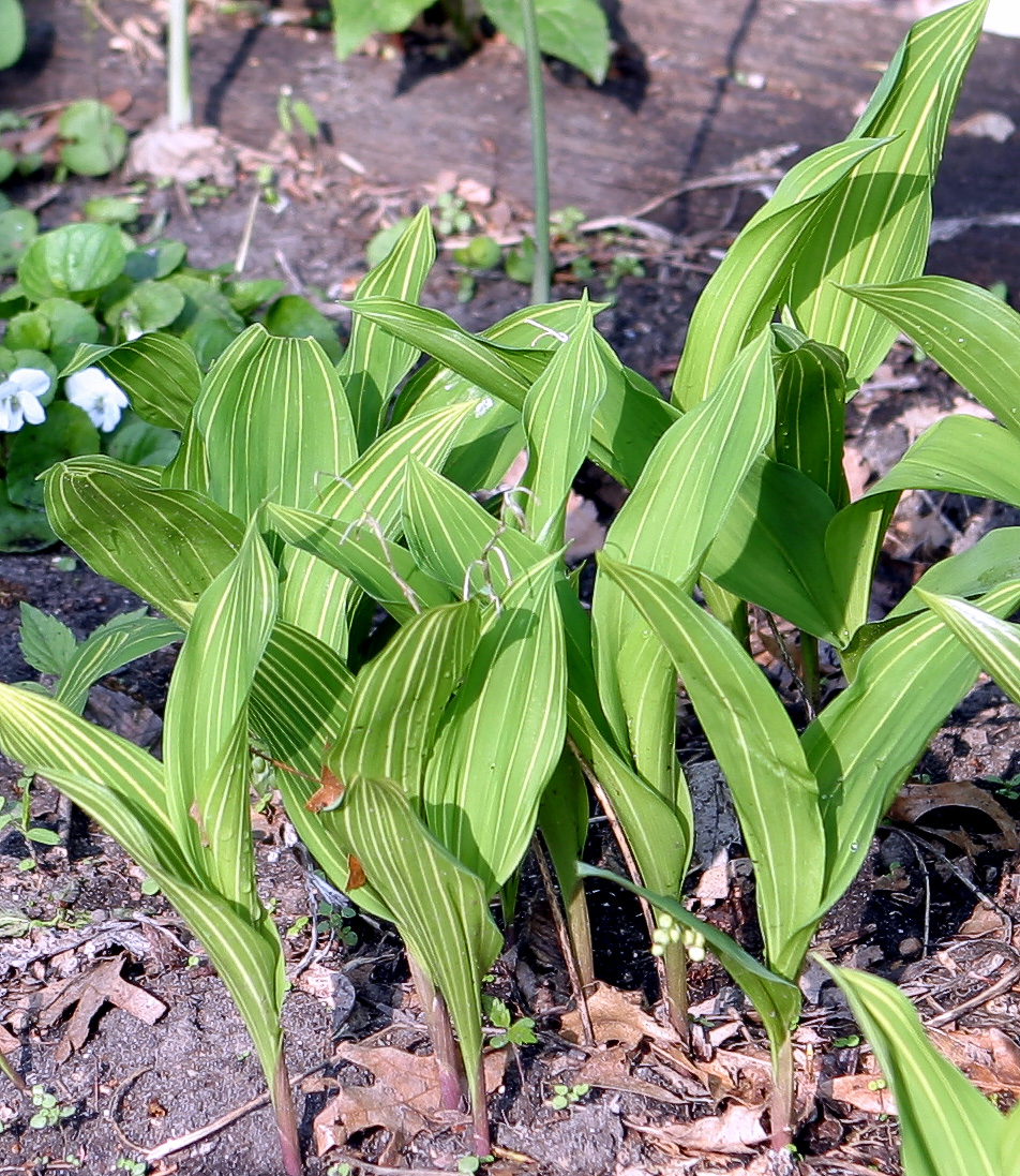 Striped Lily-of-the valley taken early spring of 2007 by Paul Henjum.